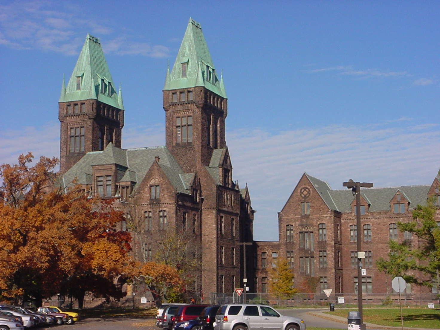 Photo of the H. H. Richardson Complex at Buffalo, New York. This building is on the National Register of Historic Places and is a U.S. National Historic Landmark